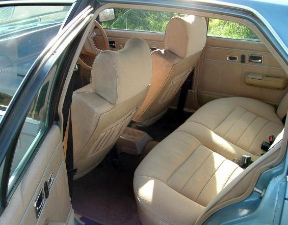 Interior of a 1978–1980 Holden VB Commodore SL/E sedan.